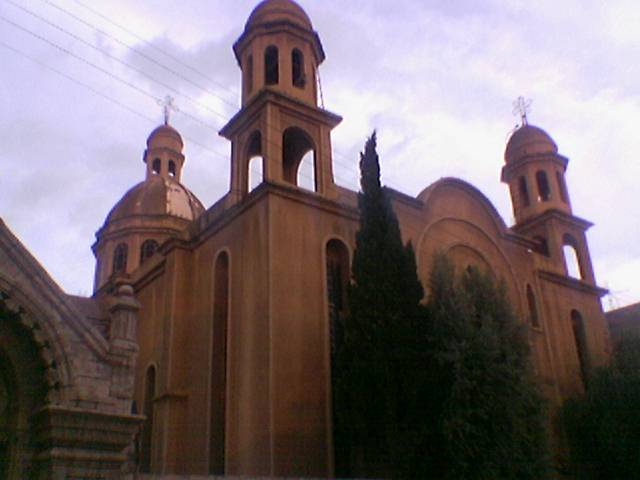 St George cathedral - Hassaké / Syrie